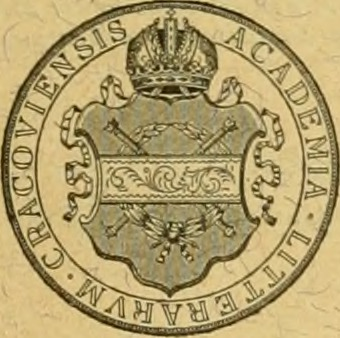 Title: Bulletin international de l'Académie des Sciences de Cracovie. Classe des sciences mathématiques et naturelles. = Anzeiger der Akadémie der Wissenschaften in Krakau. Mathematisch-naturwissenschaftliche classe Year: 1905 (1900s) Authors: Polska Akademia Umiejtnoci. Wydzia Matematyczno-Przyrodniczy Subjects: Science Publisher: Cracovie : Impr. de l'Université Text Appearing Before Image: N° 4. AVRIL 1905. BULLETIN INTERNATIONAL DE L'ACADÉMIE DES SCIENCES DE CRACOVIE. CLASSE DES SCIENCES MATHÉMATIQUES ET NATURELLES. ANZEIGER DER AKADEMIE DER WISSENSCHAFTEN IN KRAKAU. MATHEMATISCH -NATURWISSENSCHAFTLICHE CLASSE. Text Appearing After Image: CRACOVIE IMPRIMERIE DE L'UNIVERSITÉ 1905